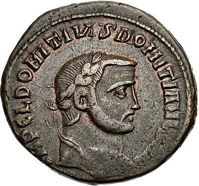 Domitius Domitianus. Usurper, AD 297-298. Æ Nummus (26mm, 9.65 g, 12h). Alexandria mint, 2nd officina. 2nd emission, struck AD 298. Obv.: Obv : IMP C L DOMITIVS DOMITIANVS AVG Laureated head right. From the Ronald J. Hansen Collection.